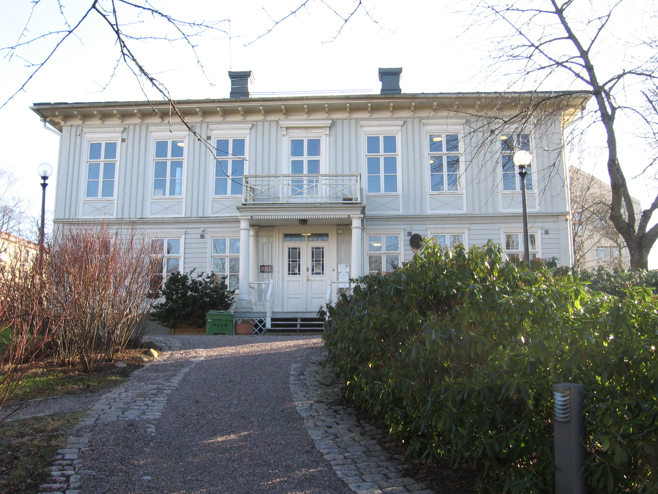 building, mansion, wood, ca1840, Gothenburg, Sweden